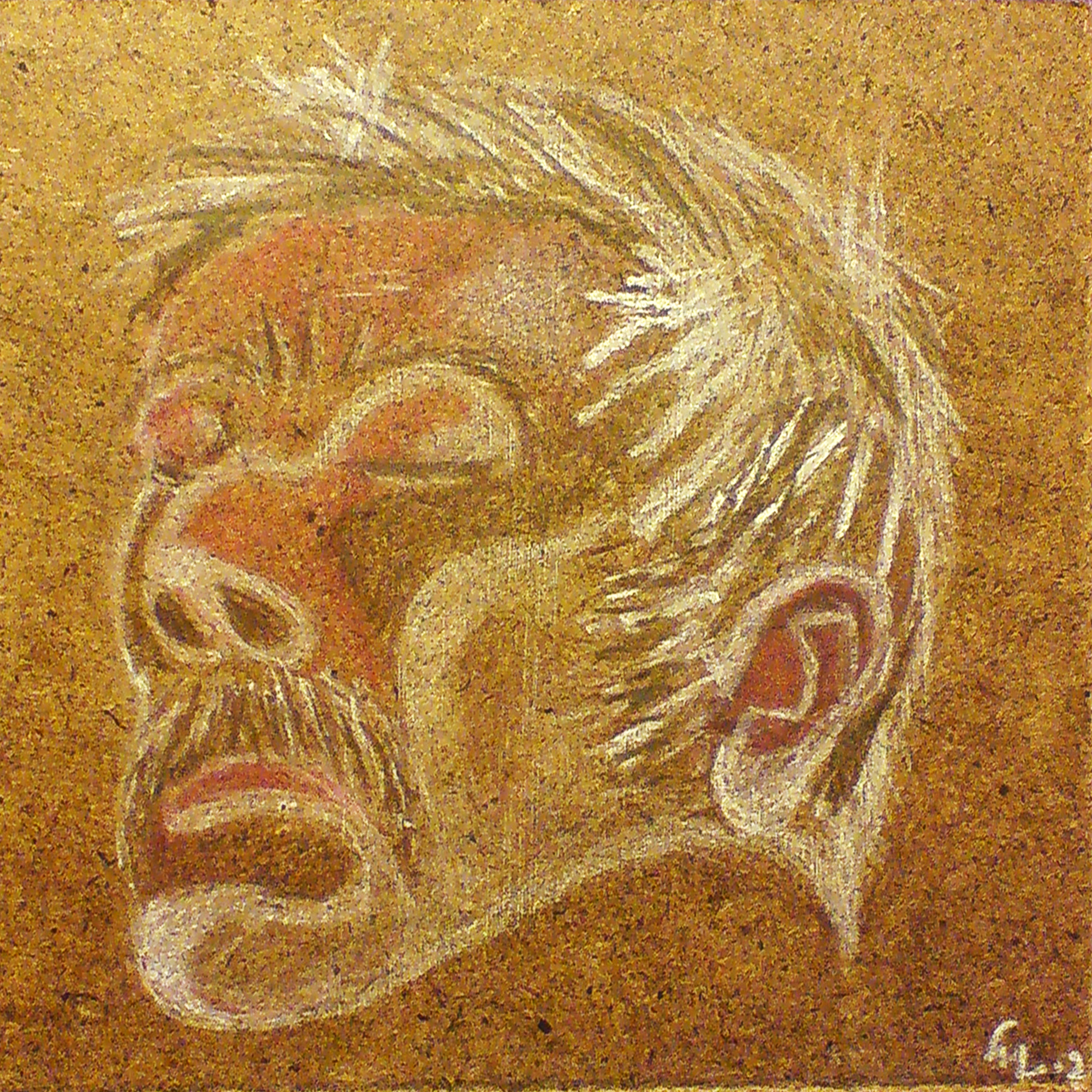 John Craxton while sleeping in his bed in London